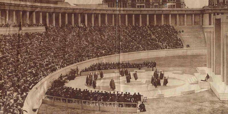 The production of The Trojan Women, the great Greek Tragedy, at the dedication ceremony for the Adolph Lewisohn Stadium on May 29, 1915. (Archives, City College of New York) The original picture belongs to the City College Library and is fair use according to the following info: 画像:Lewis.jpg